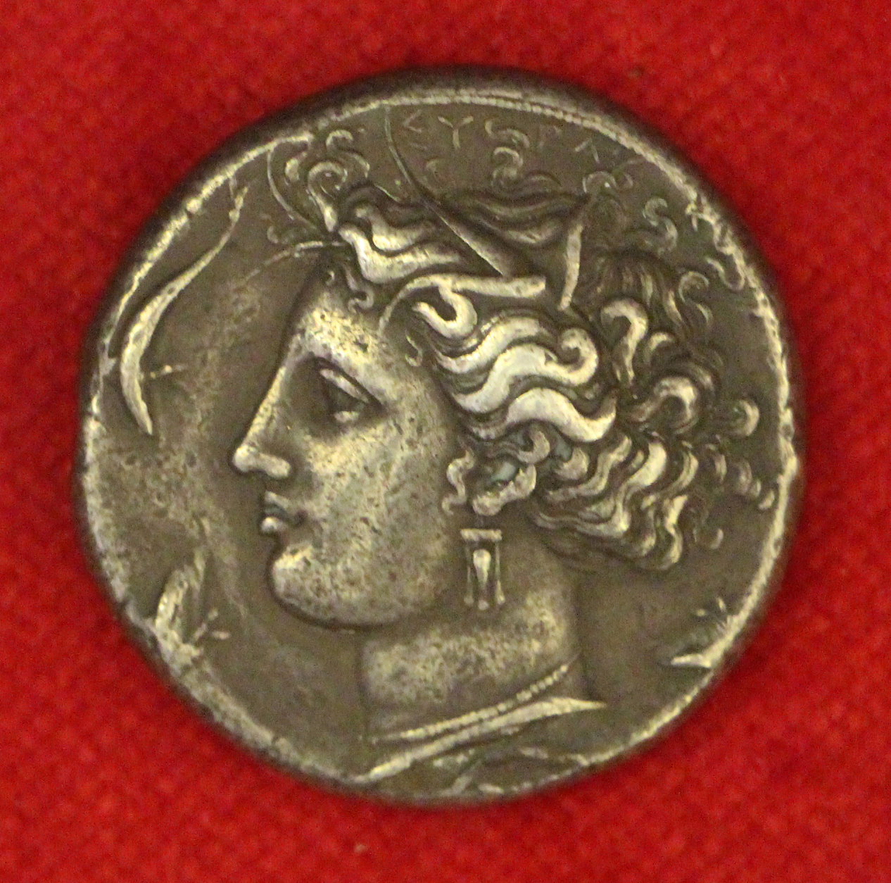 Coins in the Museo archeologico nazionale (Florence)